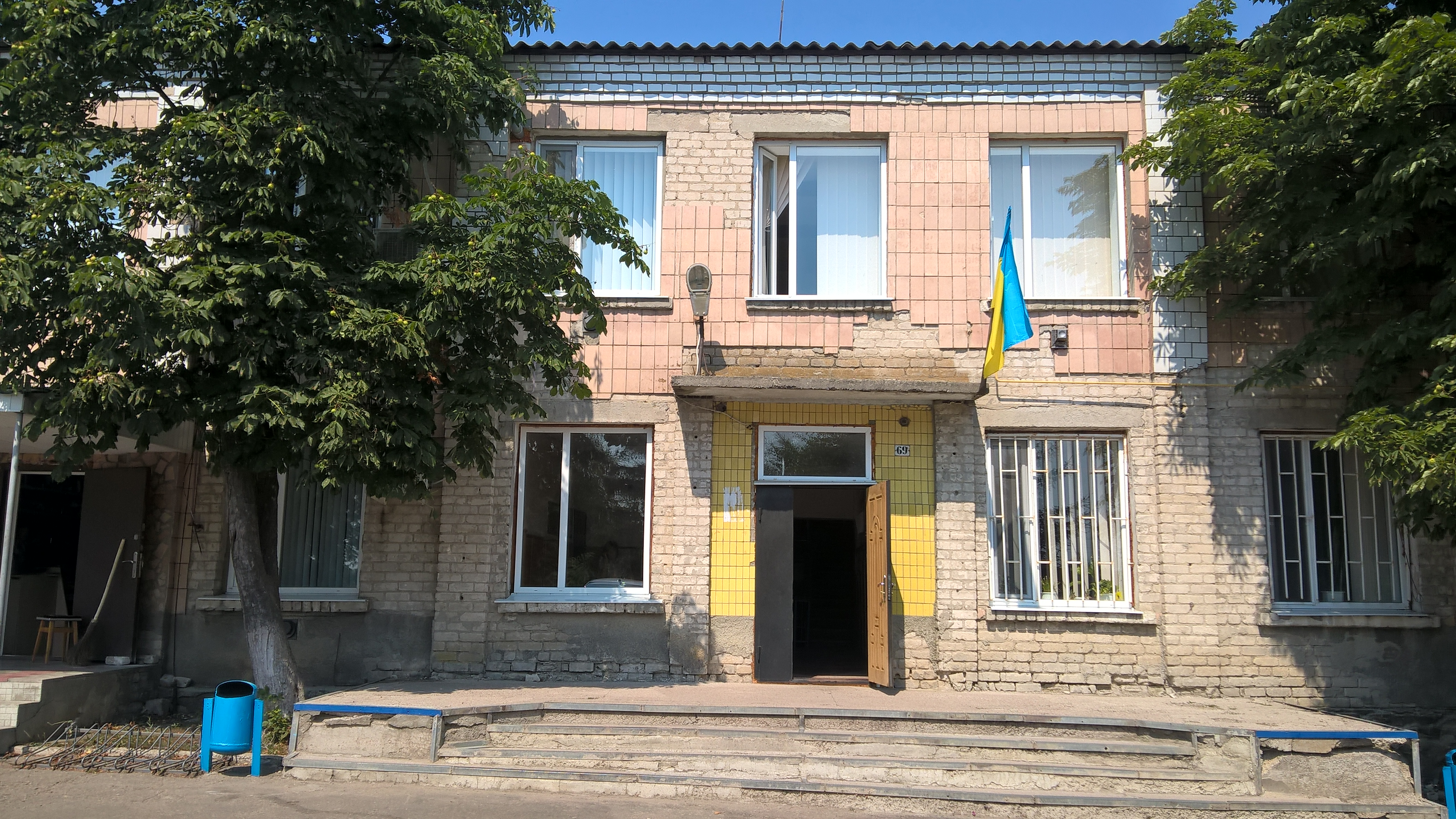 Town council of Troitske town, Luhansk region, Ukraine.